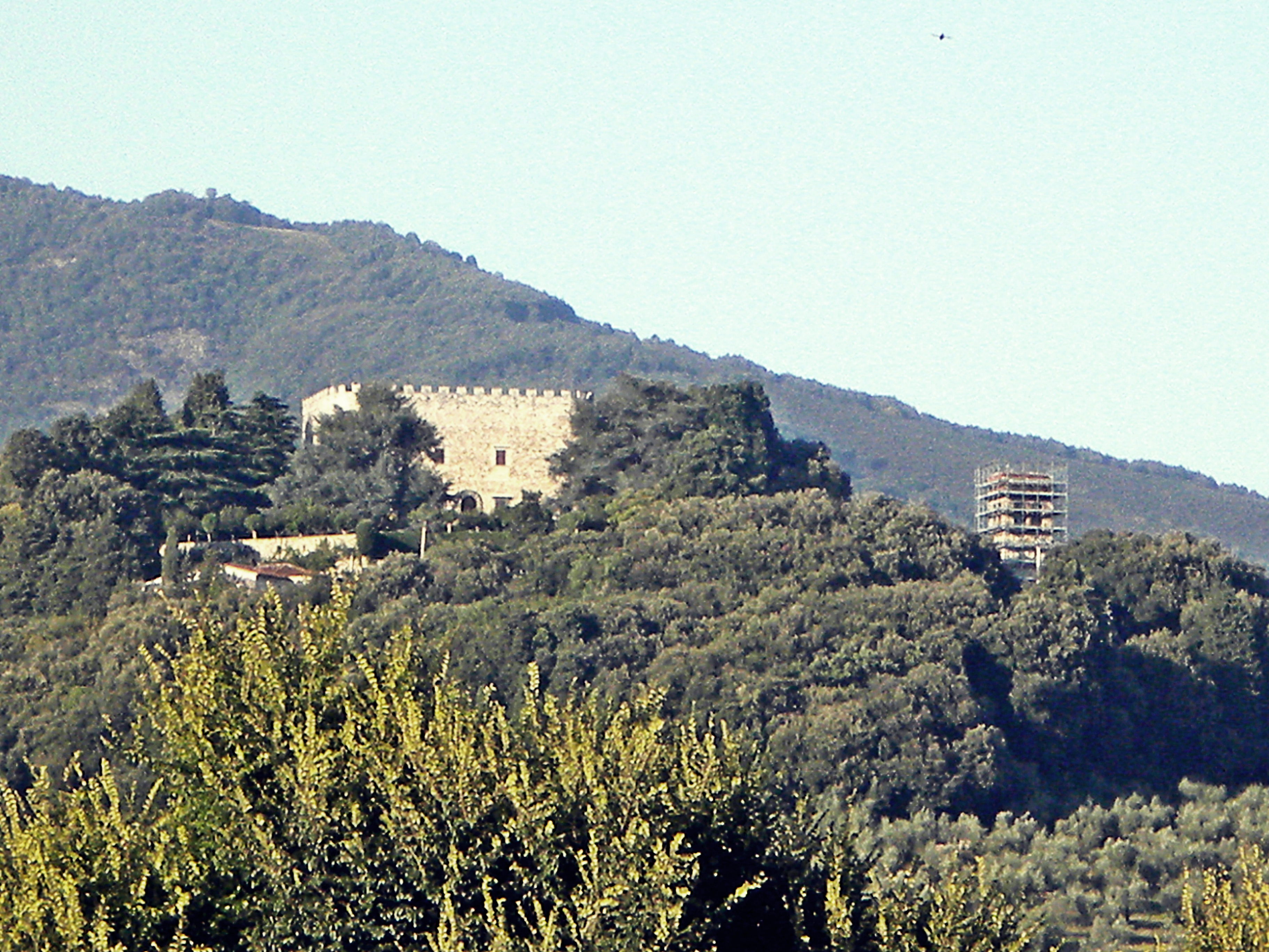 fortress